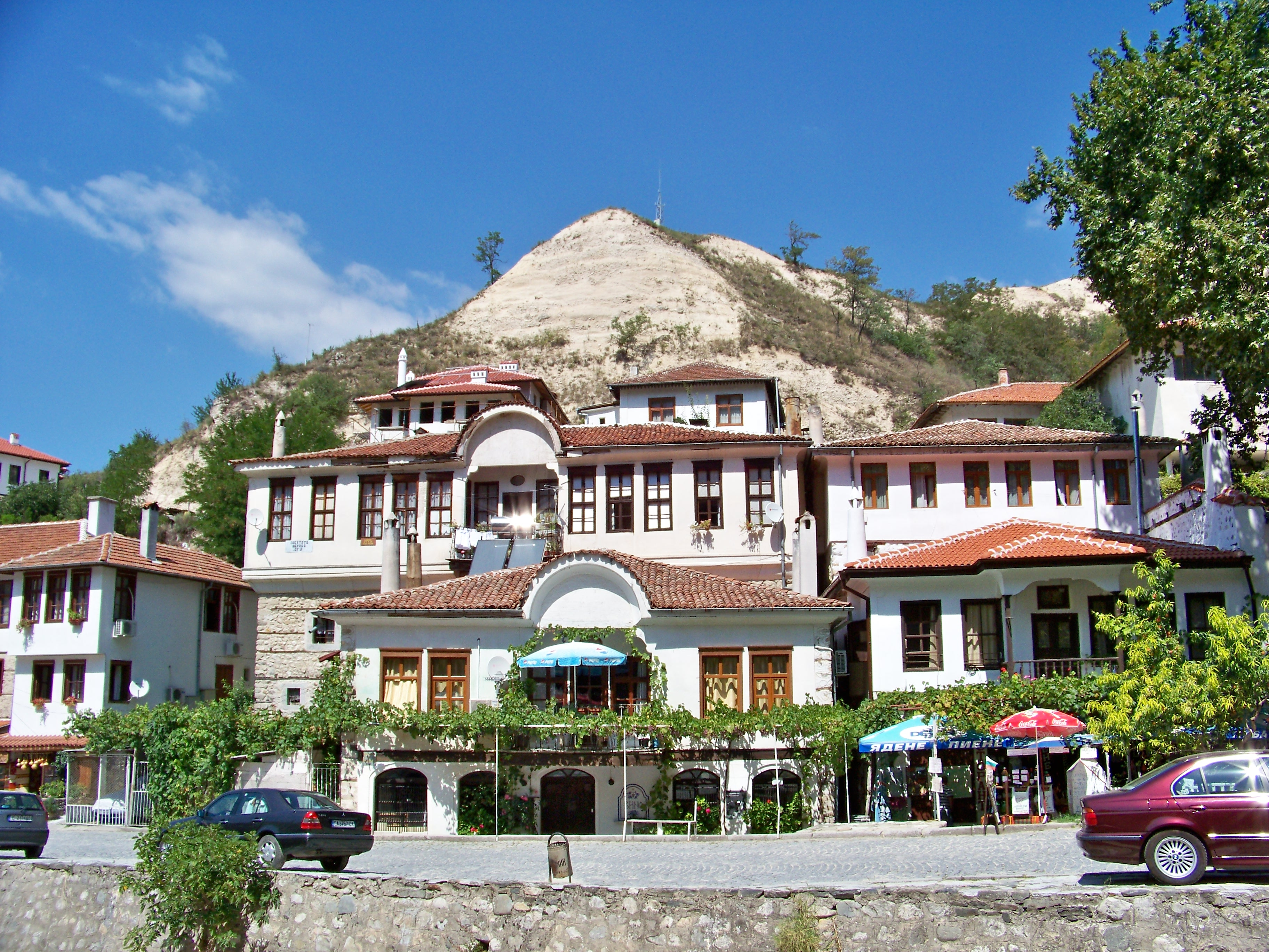 Melnik